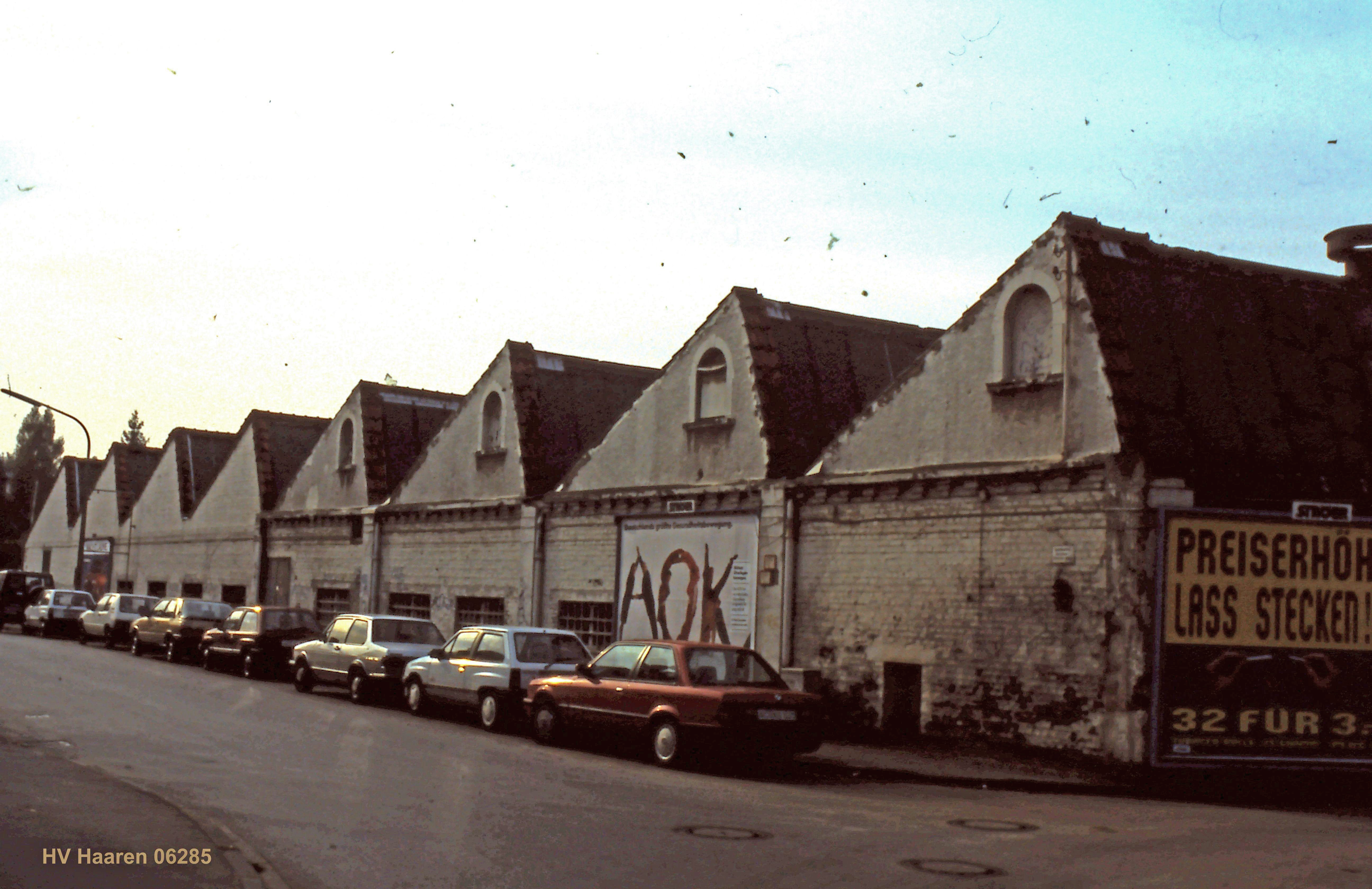 former textile mill in Haaren (today Aachen-Haaren)